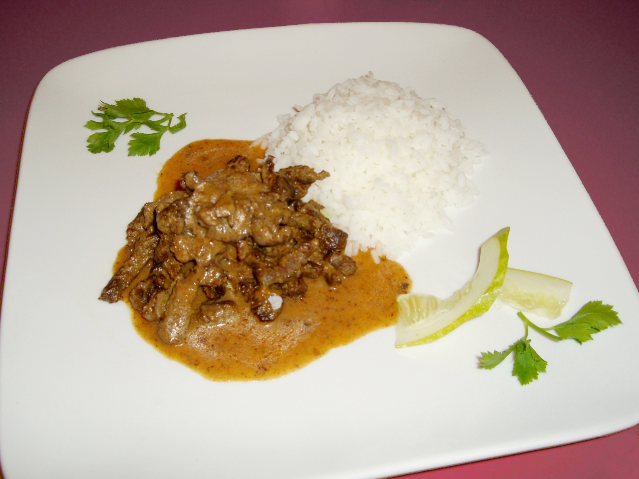 Stroganoff Ingredients: 2 pounds beef stew meat, cut into 1-inch pieces 1 large (1 cup) onion, chopped 2 tablespoons French Dip Concentrated Au Jus Sauce* 1 teaspoon finely chopped fresh garlic 1/4 teaspoon pepper 1 (10 3/4-ounce) can condensed cream of mushroom soup 1 (10 3/4-ounce) can condensed cream of chicken soup 2 (8-ounce) packages sliced mushrooms 1 (16-ounce) carton LAND O LAKES® Sour Cream Noodles Ingredients: 8 cups hot cooked egg noodles Chopped fresh parsley Combine all stroganoff ingredients except sour cream and noodles and parsley in slow cooker. Cover; cook on Low heat setting for 6 to 8 hours, or High heat setting for 4 to 5 hours or until beef is tender. Stir in sour cream just before serving. Serve over hot noodles; sprinkle with parsley.